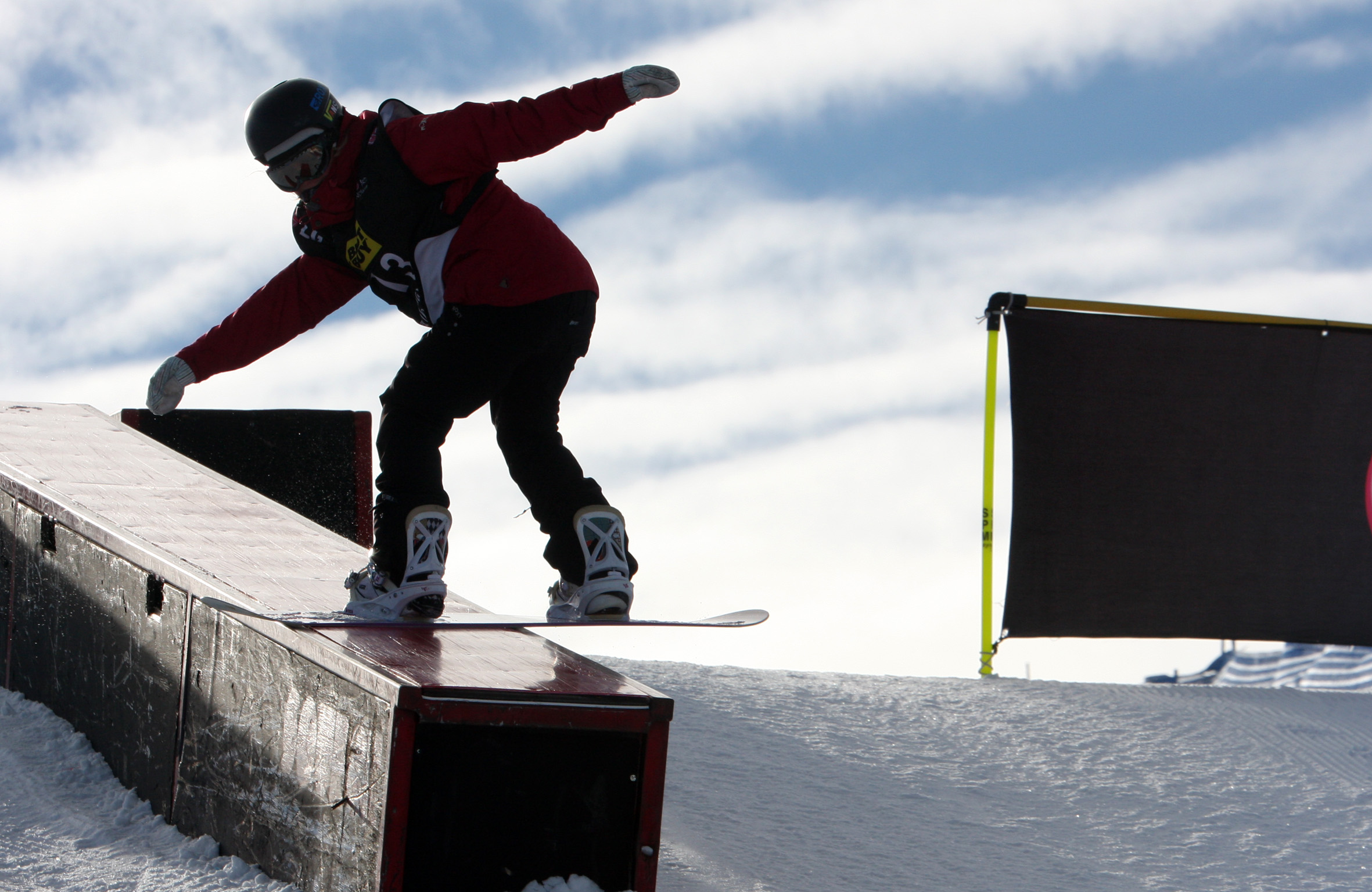 Aimee Fuller at the LG Snowboard FIS World Cup in January 2010